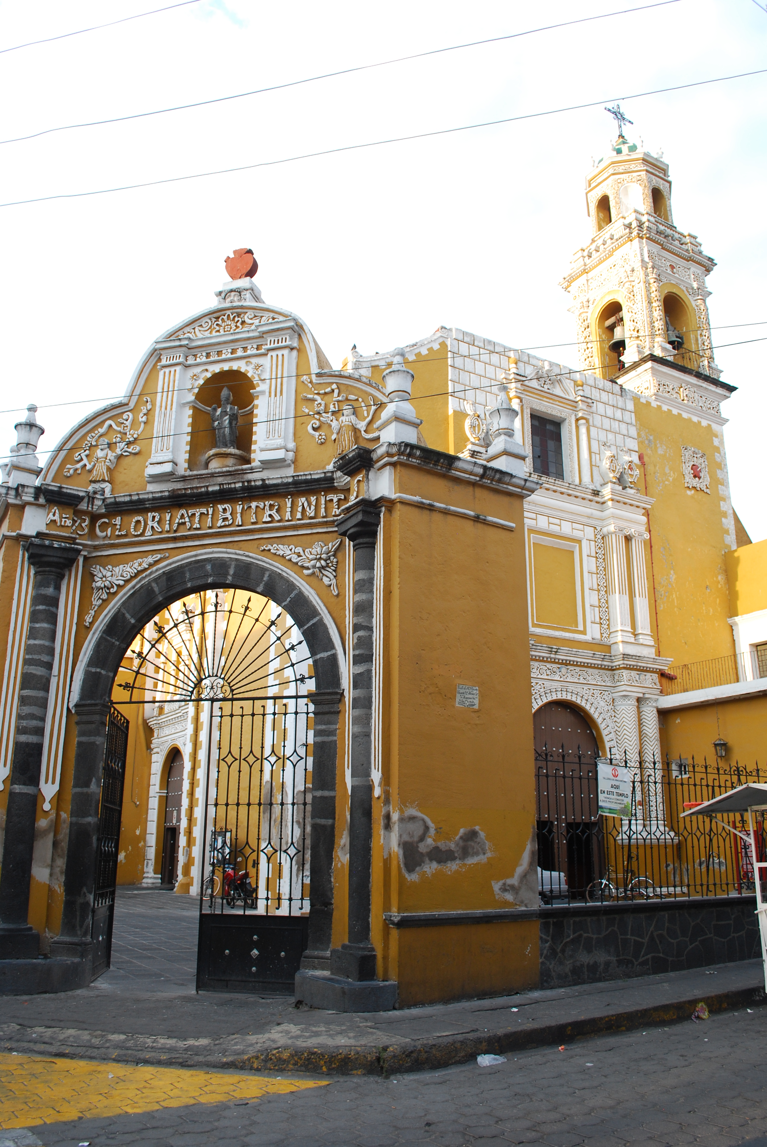 View of the San Agustin Church in Atlixco, Puebla